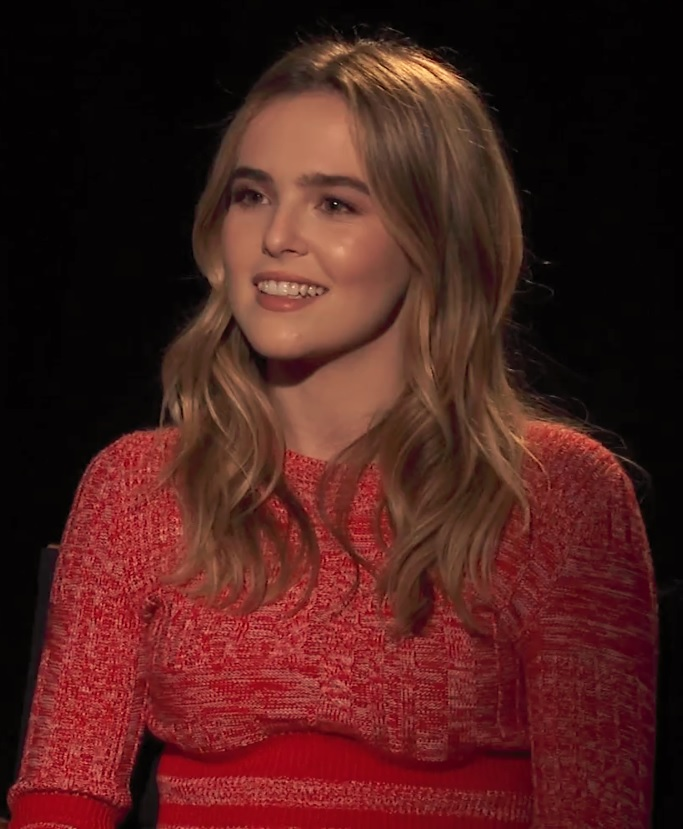 American actress Zoey Deutch interviewed for eXclusive TV about the film Before I Fall.